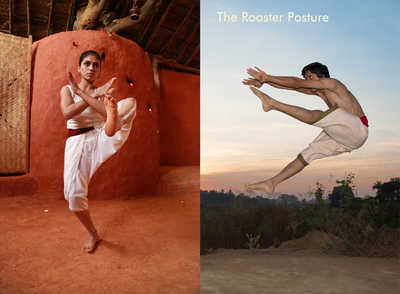 Kukkuta Vadivu or Rooster Posture in Kalaripayyattu.